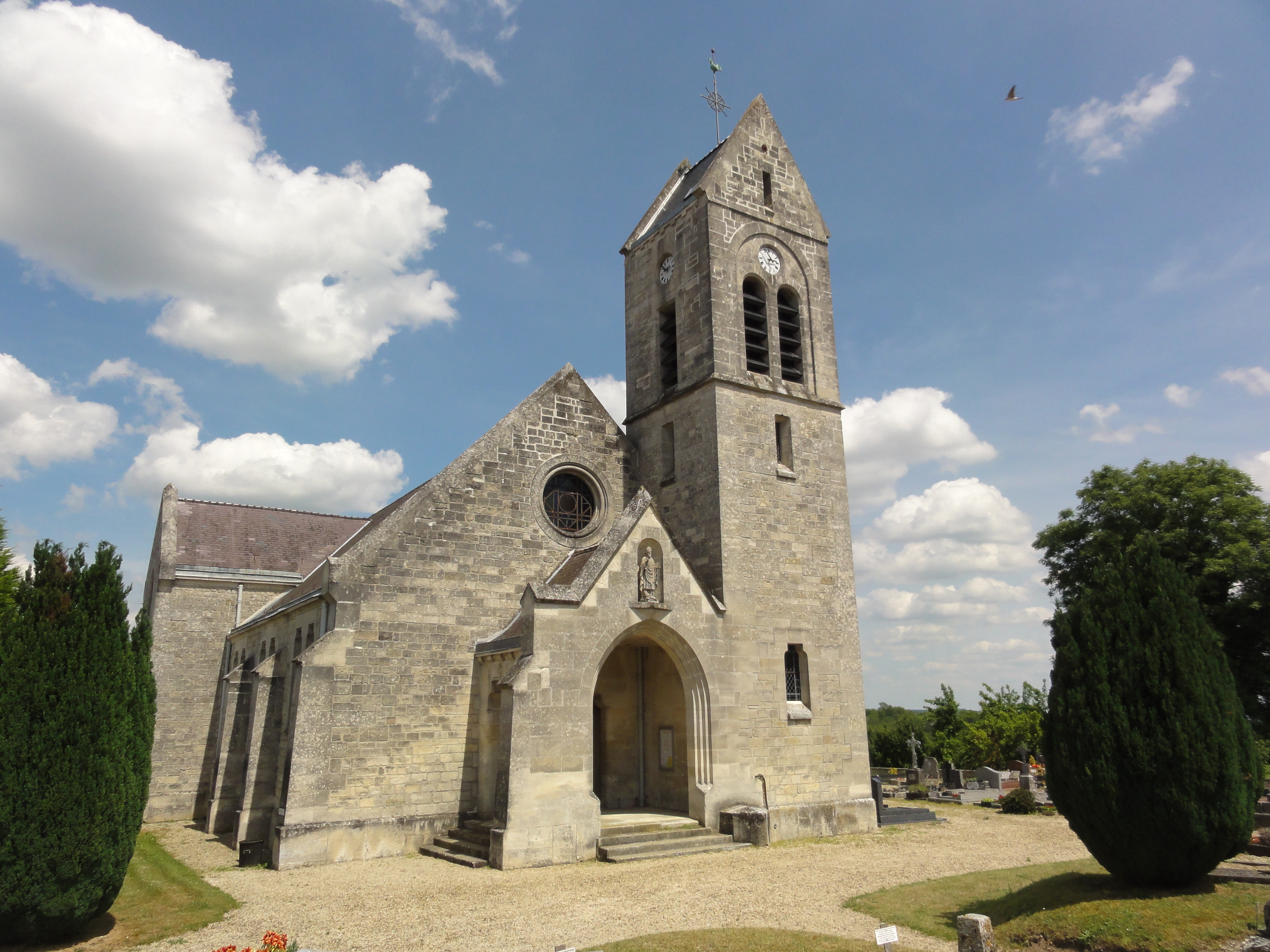 Monampteuil (Aisne) église